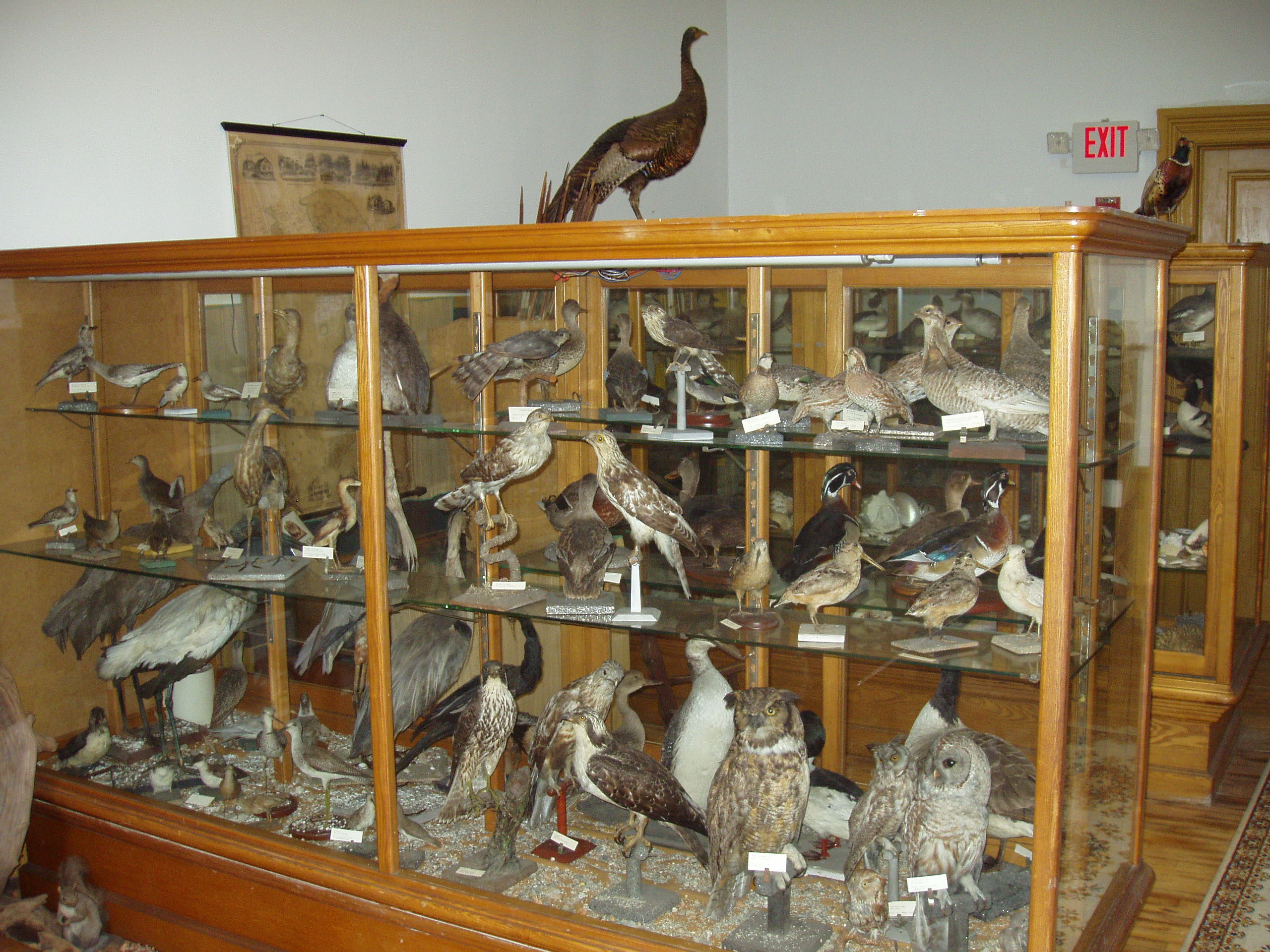 Josiah Bartlett Museum (interior) - Amesbury, Massachusetts. Photograph taken by me, 2005.